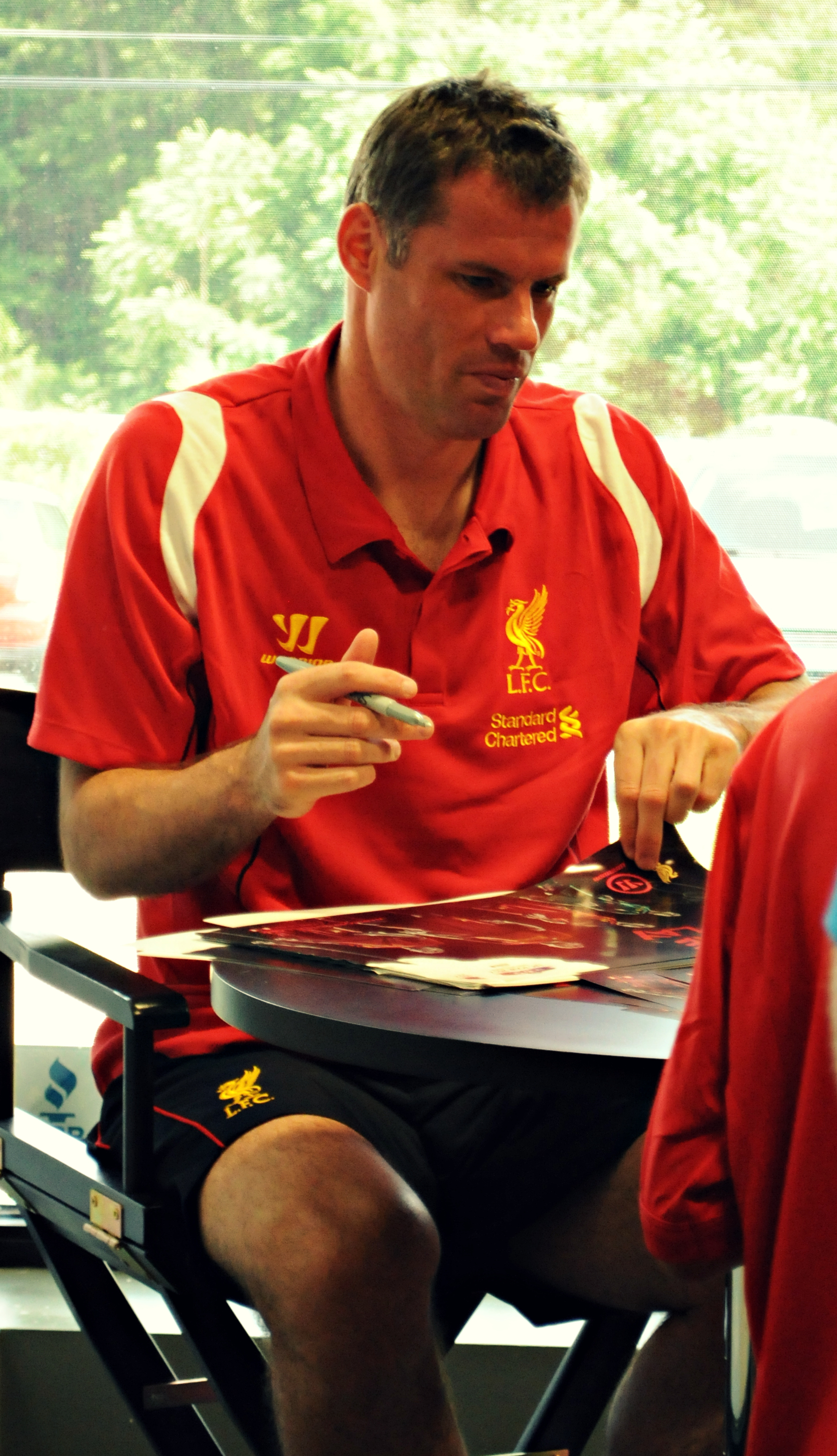 Jamie Carragher meets the fans in Boston